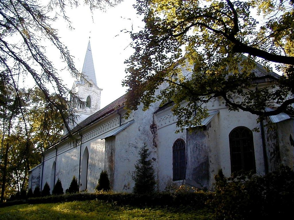 Trikāta Evangelical Lutheran Church of Saint JohnLatviešu: Trikātas Svētā Jāņa evaņģēliski luteriskā baznīca